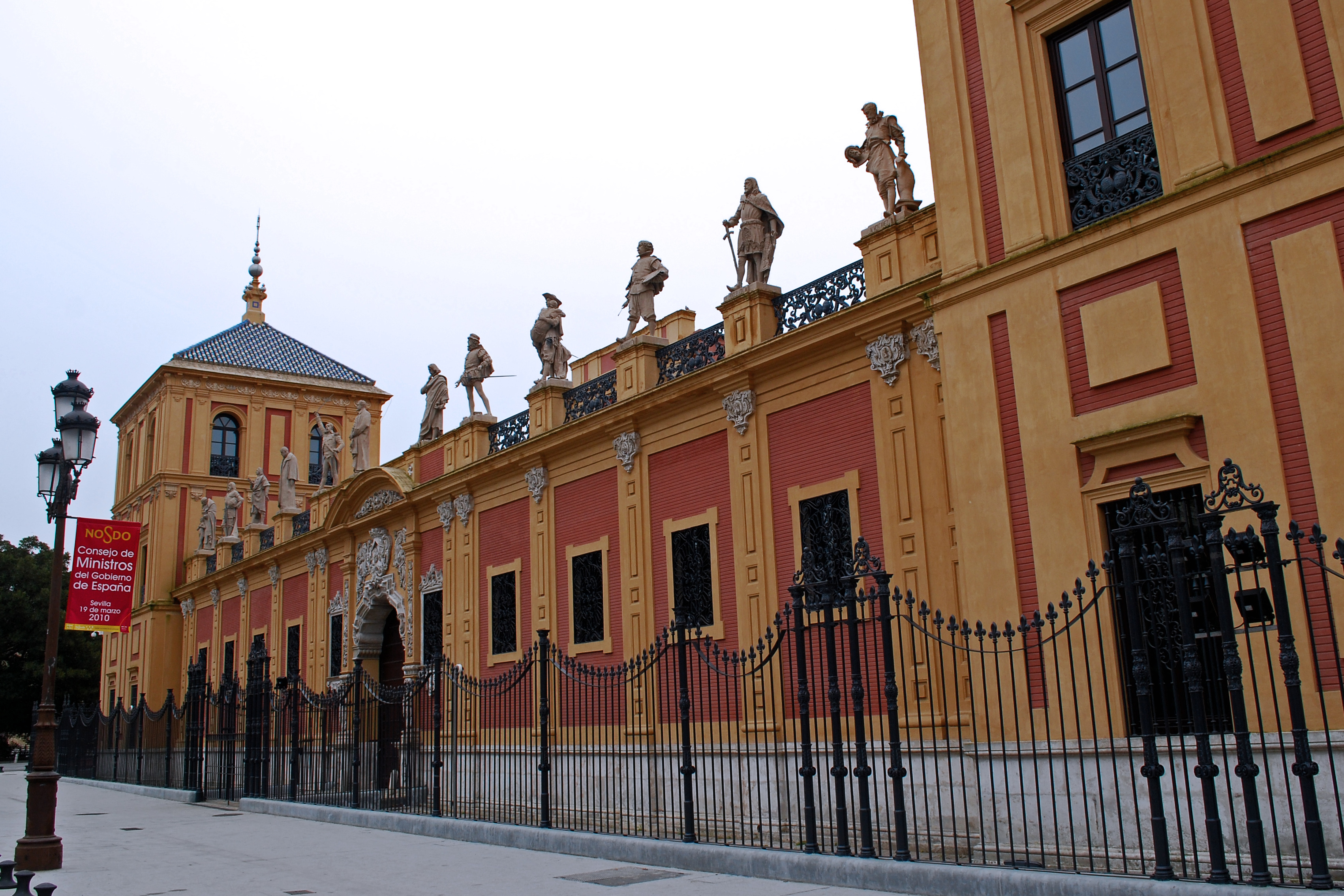 Palace of San Telmo, Seville